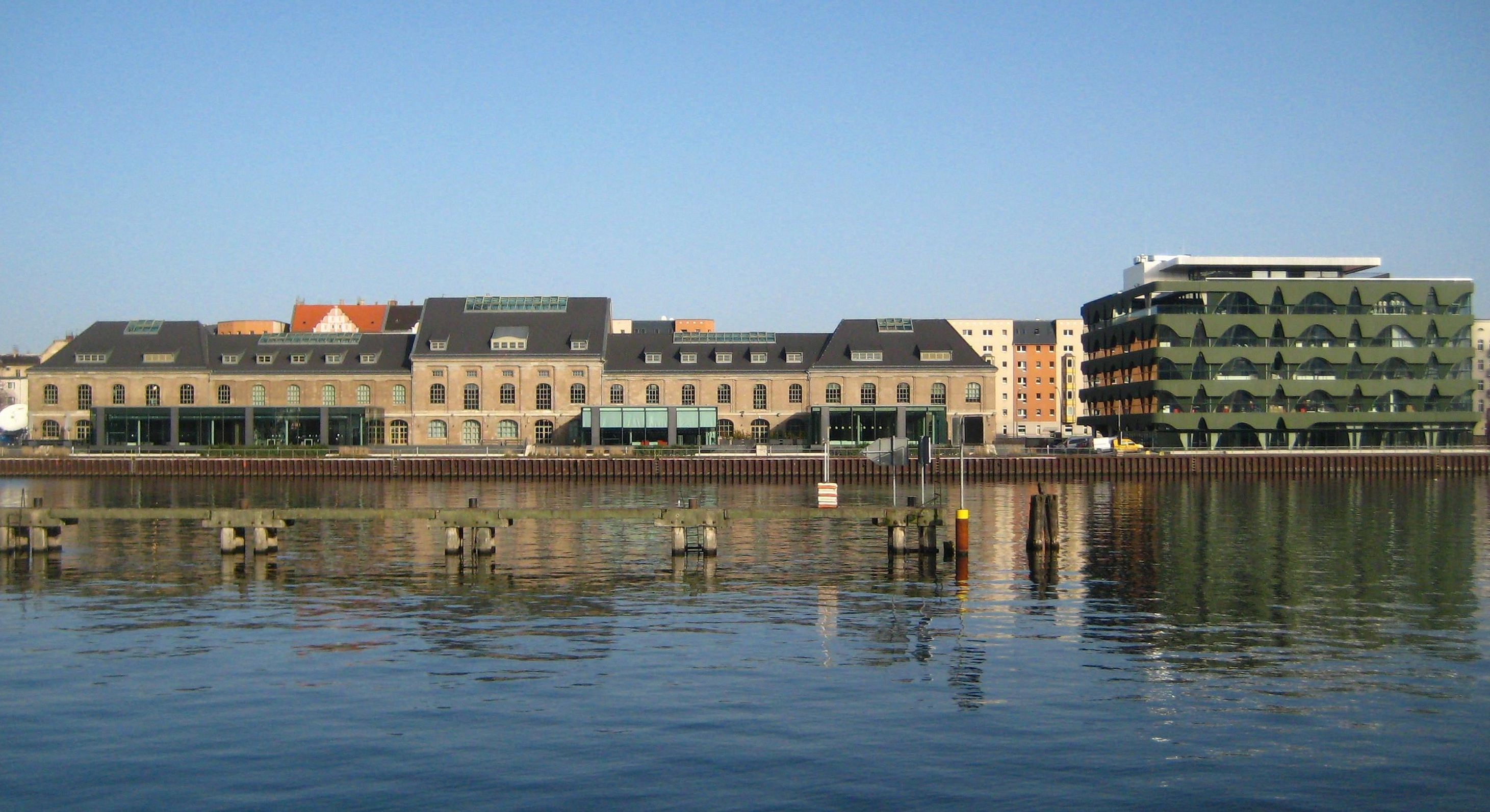 On the left, the former Storehouse 2 of the Osthafen (East Harbor) an der Stralauer Allee in Berlin-Friedrichshain. Renamed "Labels Berlin 1", it became the seat of showrooms for fashion companies in 2006. On the right, "Labels Berlin 2", built 2008/2009 to a design by the architectural office HHF from Basel.